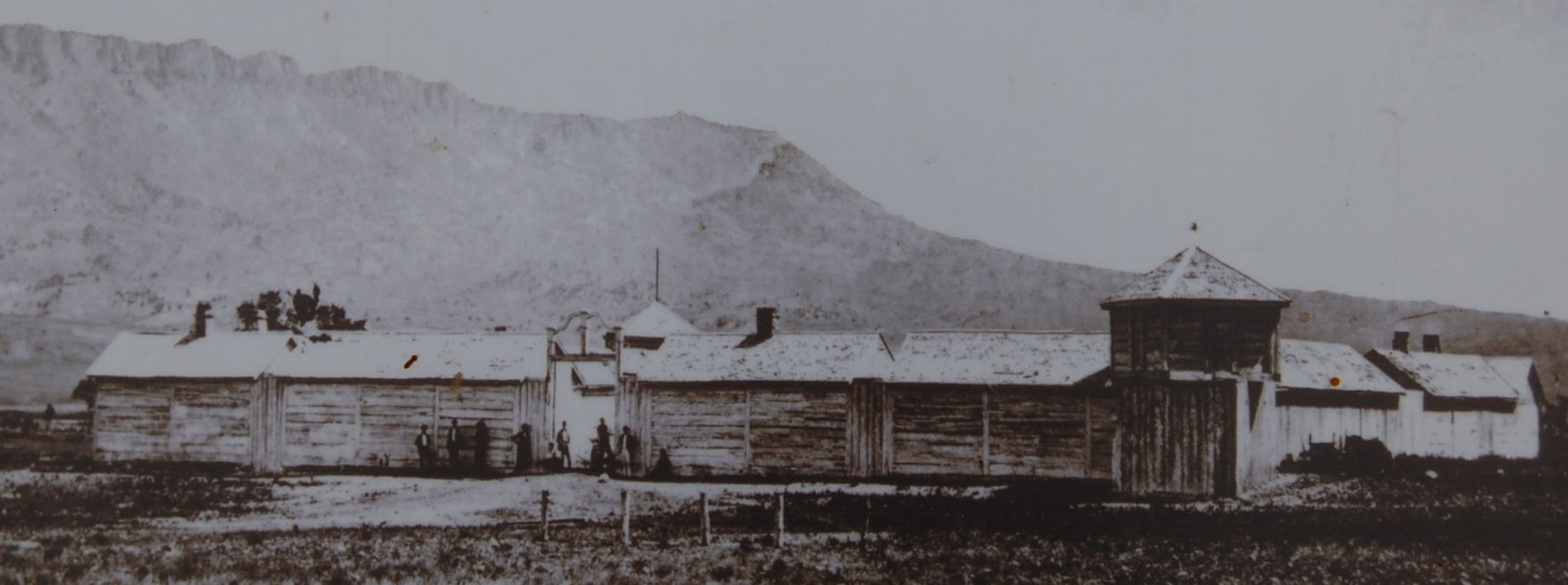 Wooden first structure at Fort Parker, Montana, first Crow Agency, later replaced with adobe complex. From roadside historical marker.